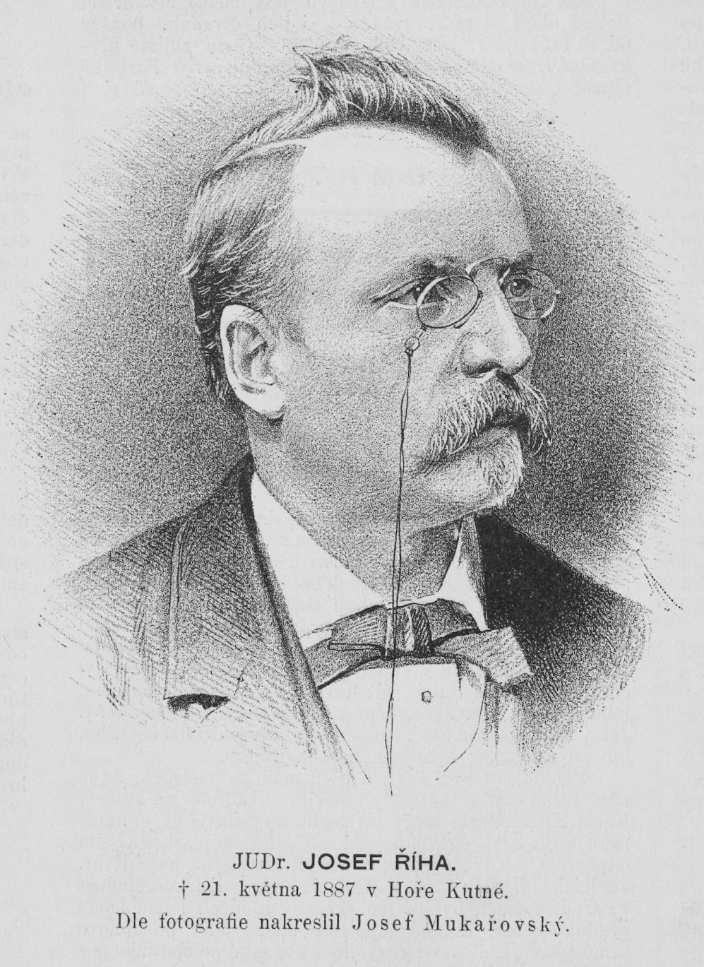 Portrait of Josef Říha (1830 - 1887), Czech lawyer and regional politician in Kutná Hora